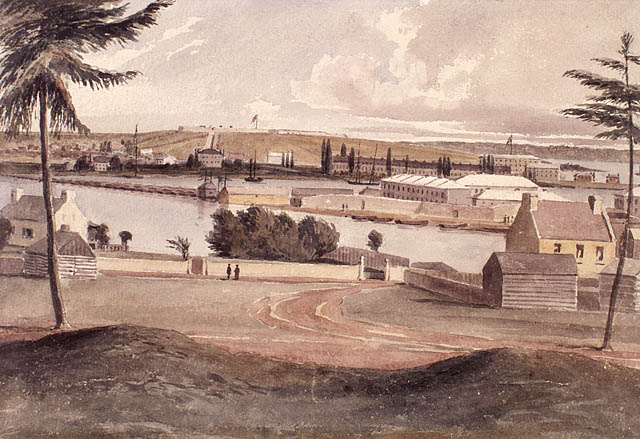 Fort Henry, Point Frederick and Tete du Pont Barracks, Kingston, from the old redoubt, watercolour with scraping out over pencil on wove paper, 25.400 x 17.100 cm